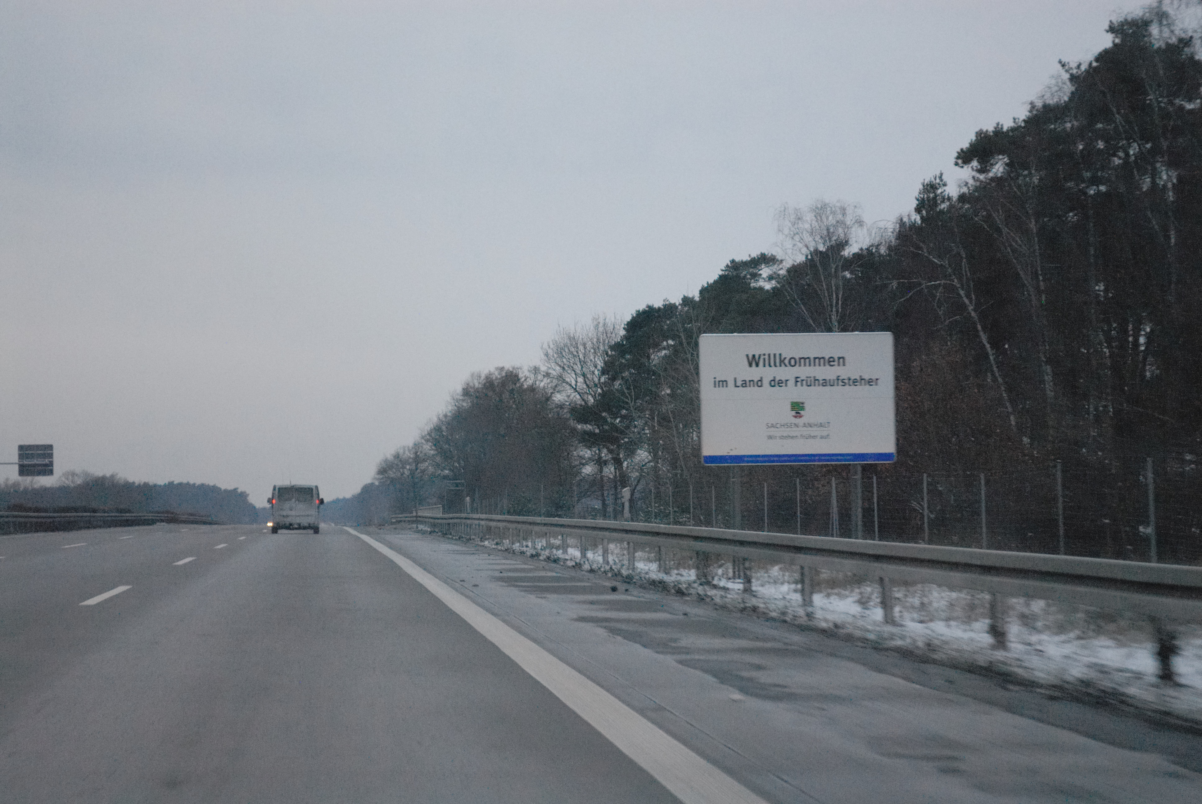 Road sign at the border of Saxony-Anhalt welcoming drivers. Literal translation: "Welcome in the country of early risers. Saxony-Anhalt. We get up earlier." Road shot from A 2.